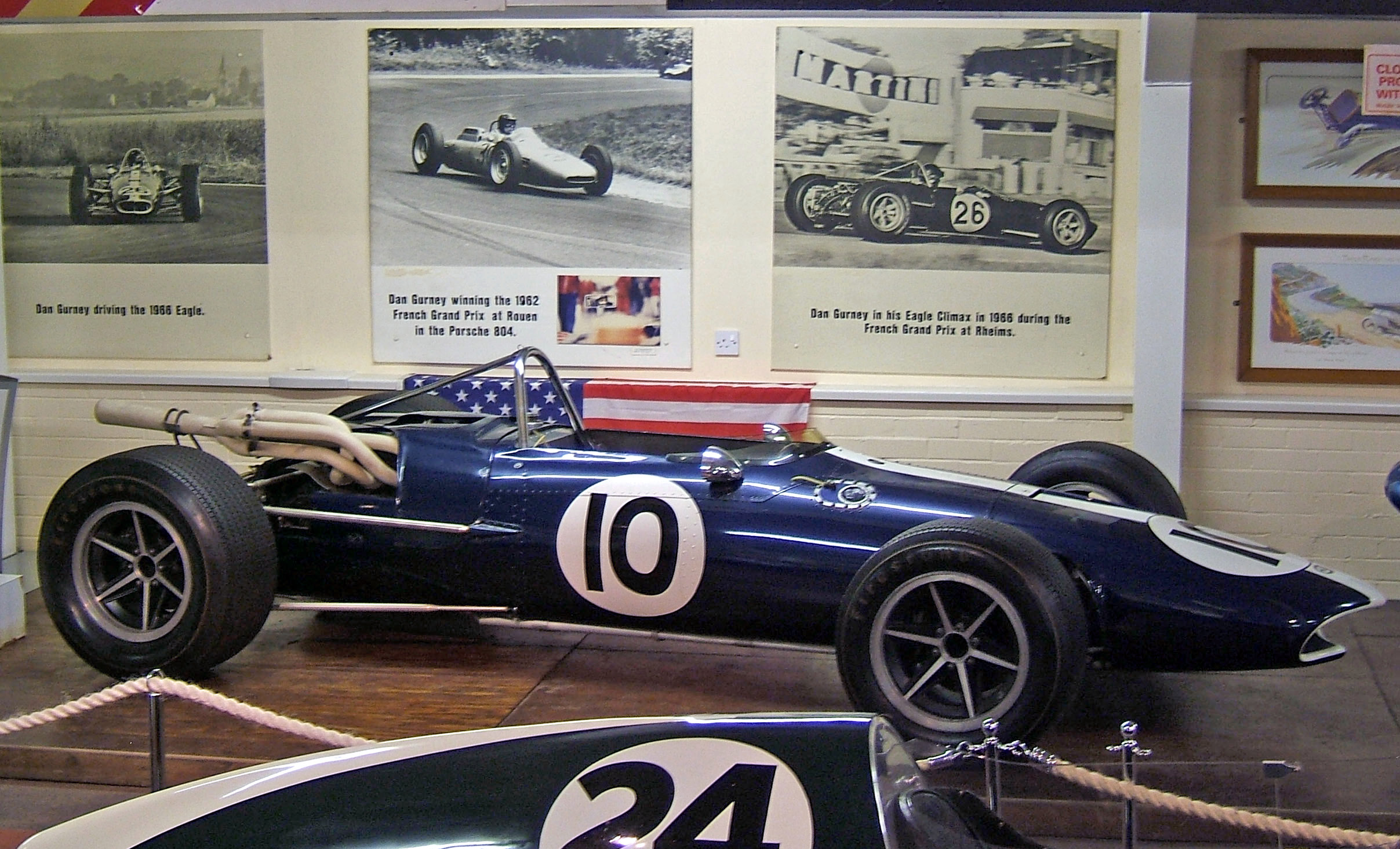 An Eagle Mk1 Formula One racing car (T1F chassis 101). In the Donington Grand Prix Collection museum, Leics., UK.